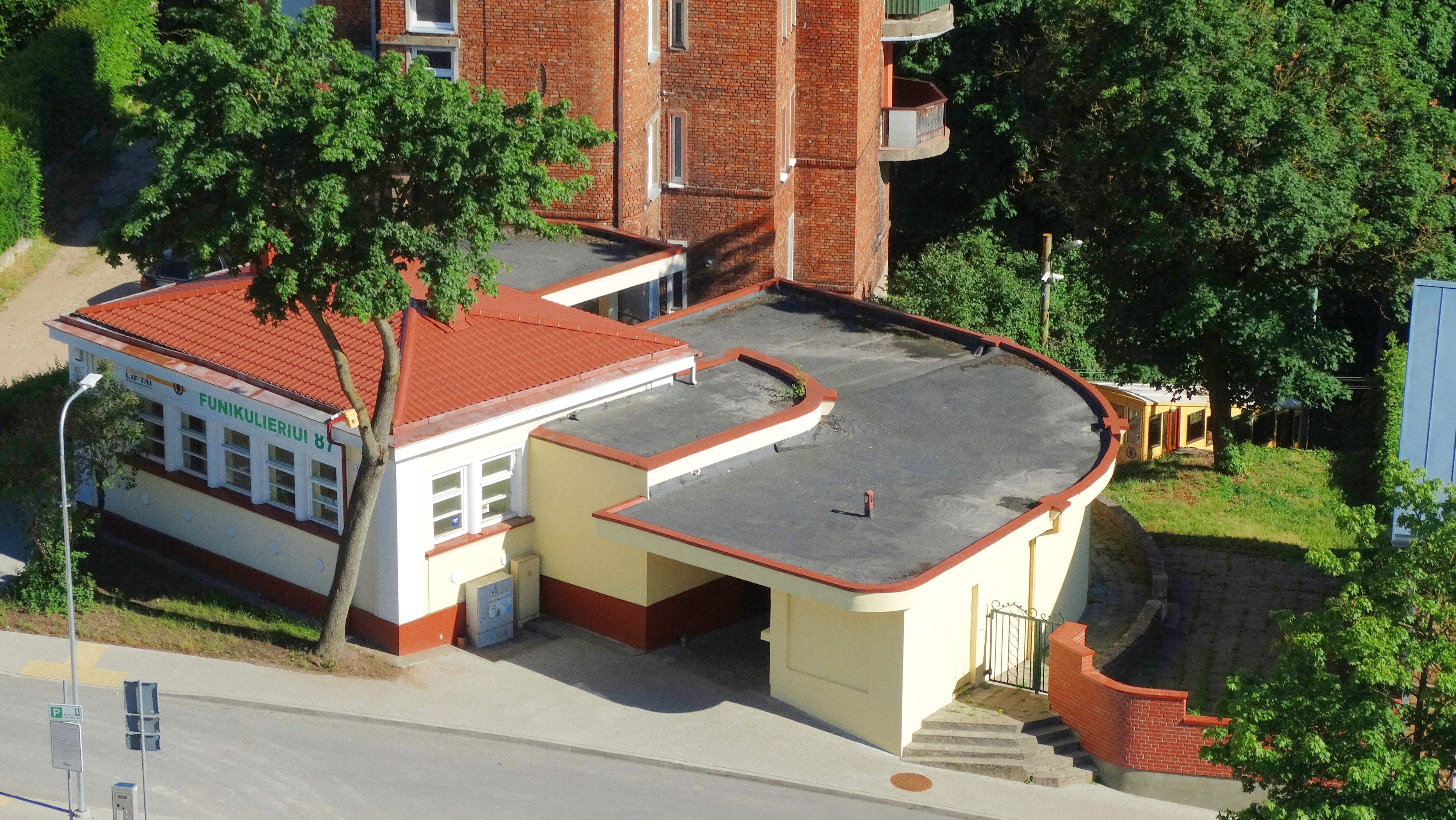 Žaliakalnis Funicular Railway, top point, Kaunas, Lithuania